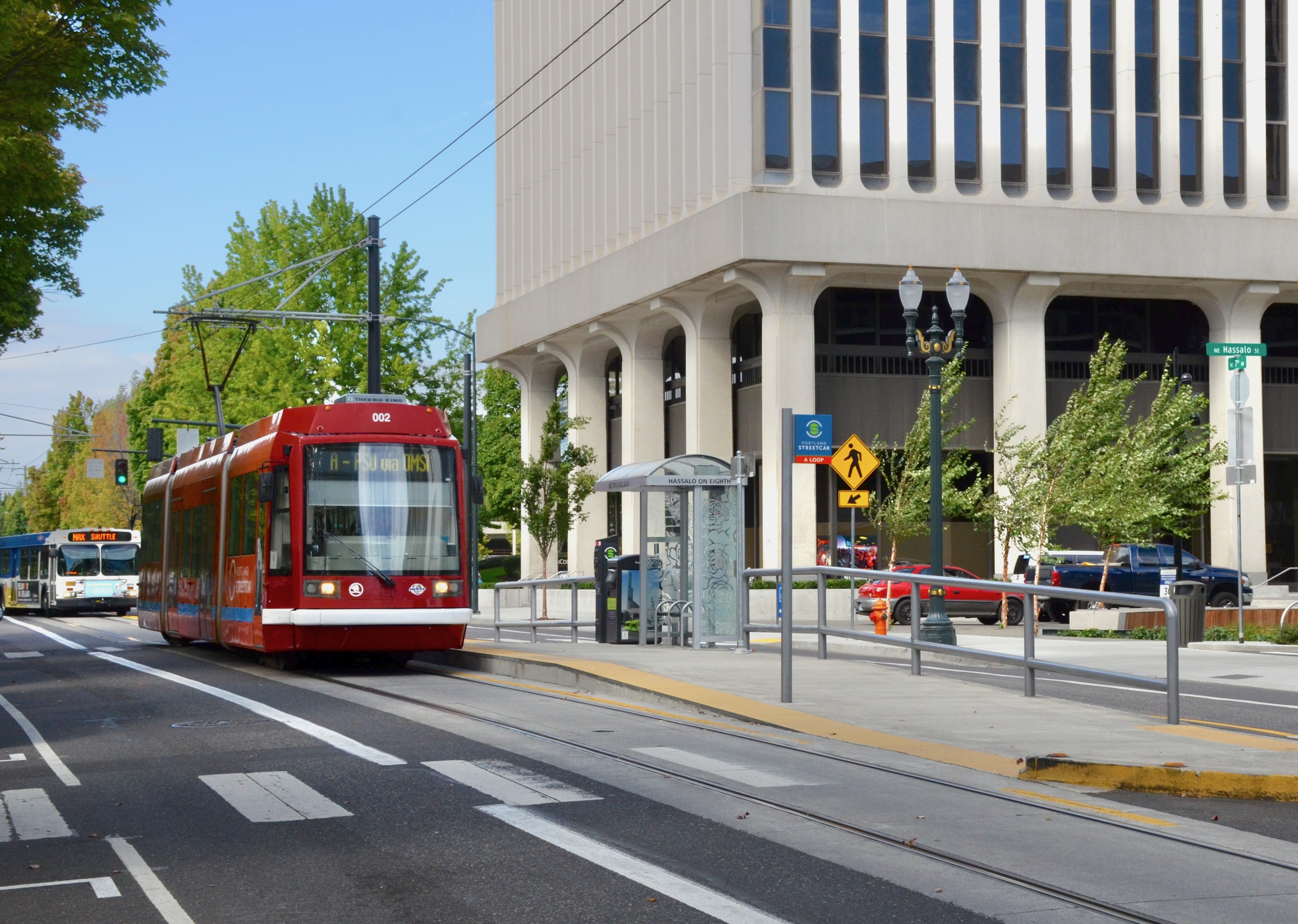 Portland Streetcar car 002 pulling into the "NE 7th & Holladay" stop, on 7th Avenue at Hassalo Street. (The stop is named not for Hassalo but for Holladay, one block away, presumably because a MAX Light Rail station is located on Holladay street.) In the background is the lowermost portion of the Lloyd 700 Building.